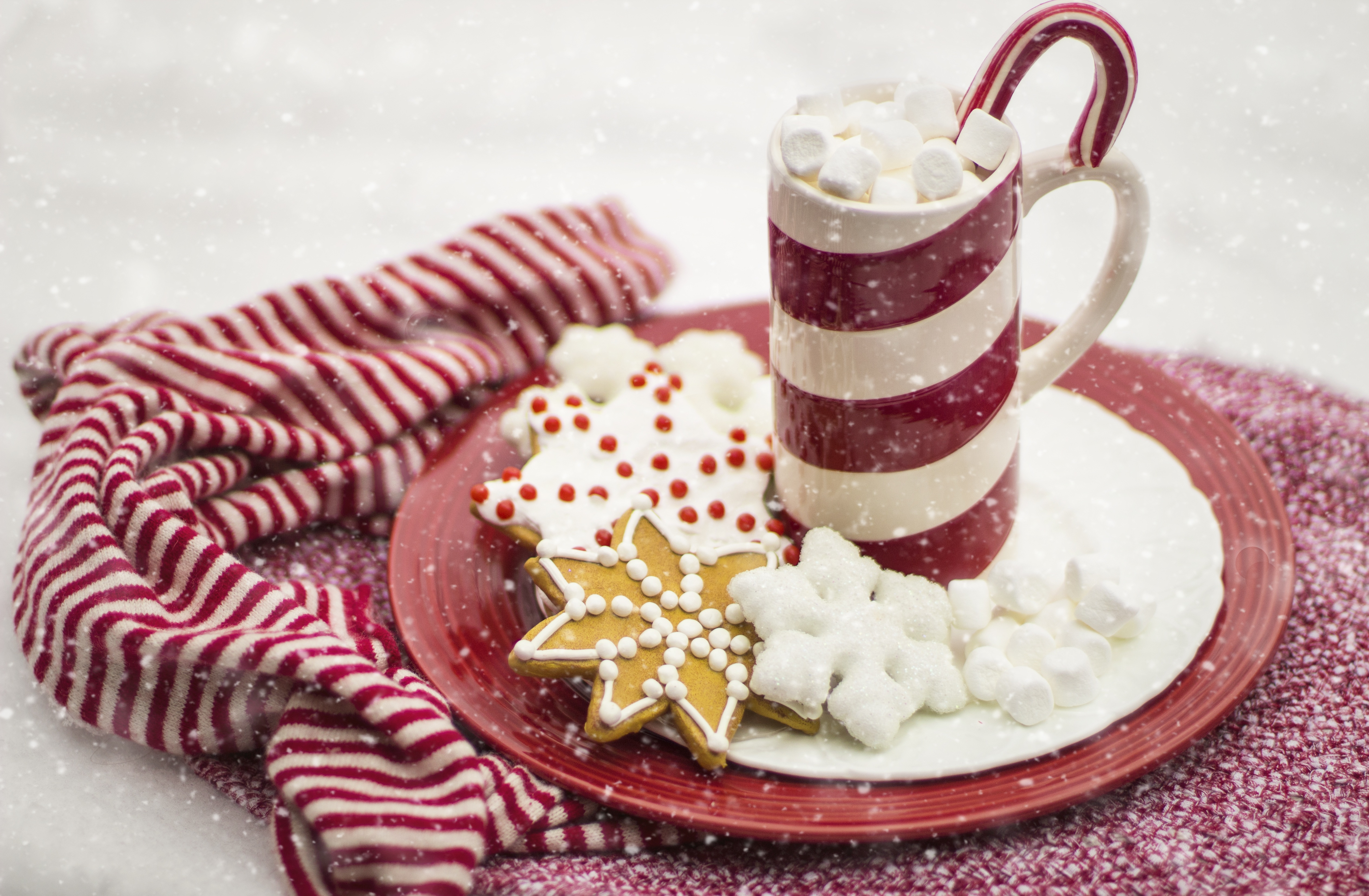 A christmas-themed dessert with hot chocolate and decorated ginger bread cookies